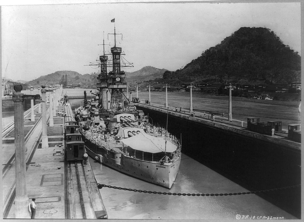 U.S.S. Arizona in lock, Panama